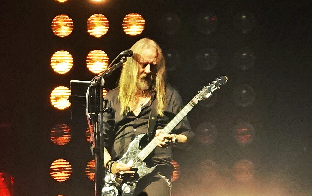 Jerry Cantrell performing in Leeds, England (16/06/2018)